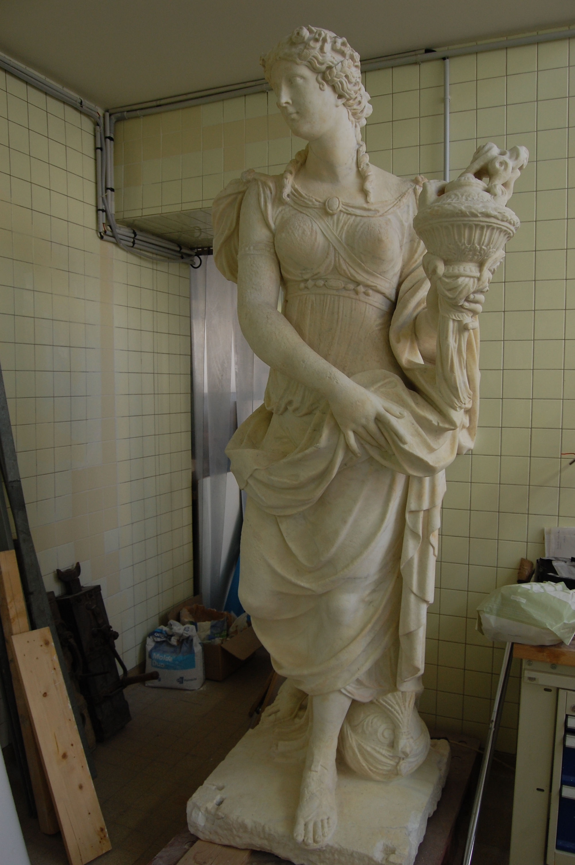 L'Asie (the Asia) by Léonard Roger, in the statues' restoration workshop of the palace of Versailles